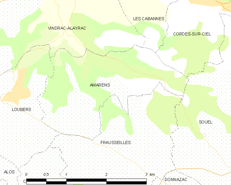 Map of French municipality Amarens